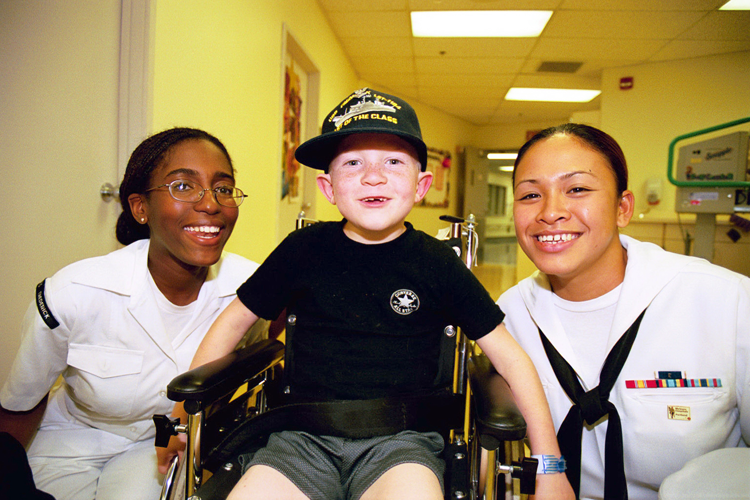 Portland, OR (Jun. 7, 2002) -- U.S. Navy reservists from the tank landing ship, USS Frederick (LST 1184), visit with Tyler Upmeyer, a patient at the Portland Shriner’s Hospital during community support projects in the Portland area. Nicknamed “Fast Freddy,” Frederick is the last of the Newport class of tank landing ships. Frederick departed Hawaii for a port visit in Portland, OR, to participate in the annual Portland Rose Festival. USS Frederick is slated for decommissioning at Pearl Harbor, HI, on October 5th, ending thirty-two years of commissioned service. U.S. Navy photo by Journalist 2nd Class Mike Miller. (RELEASED)